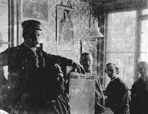 Christiaan Cornelissen and the Recht voor Allen.